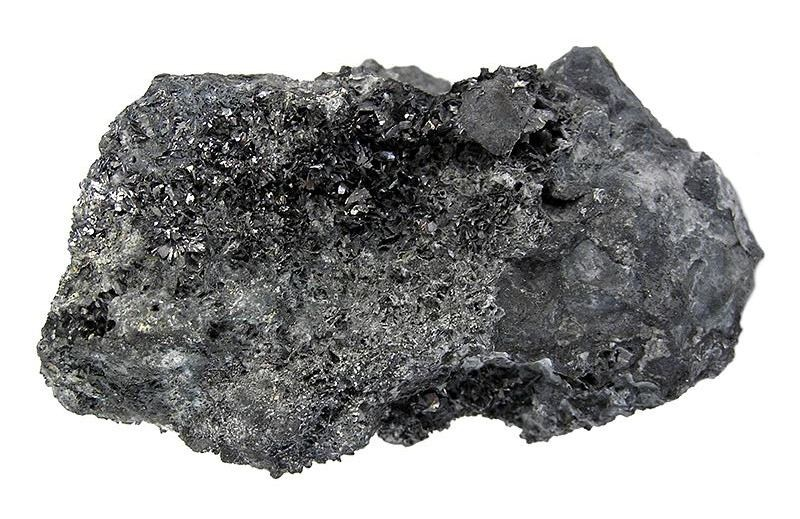 Cannizzarite Locality: Kudriavy (Kudryavyi) volcano, Iturup Island, Kuril Islands, Sakhalinskaya Oblast', Far-Eastern Region, Russia (Locality at ) Size: 7.4 x 4.0 x 3.9 cm. This is a remarkably rich, sparkling specimen just smothered with sharp microcrystals of this rare species (to perhaps 1mm). This location has also given us rheniite, and is a very important occurrence for rare metallic species formed from the volcanic vents here. Analyzed and from the inventory of Josef Vajdak.